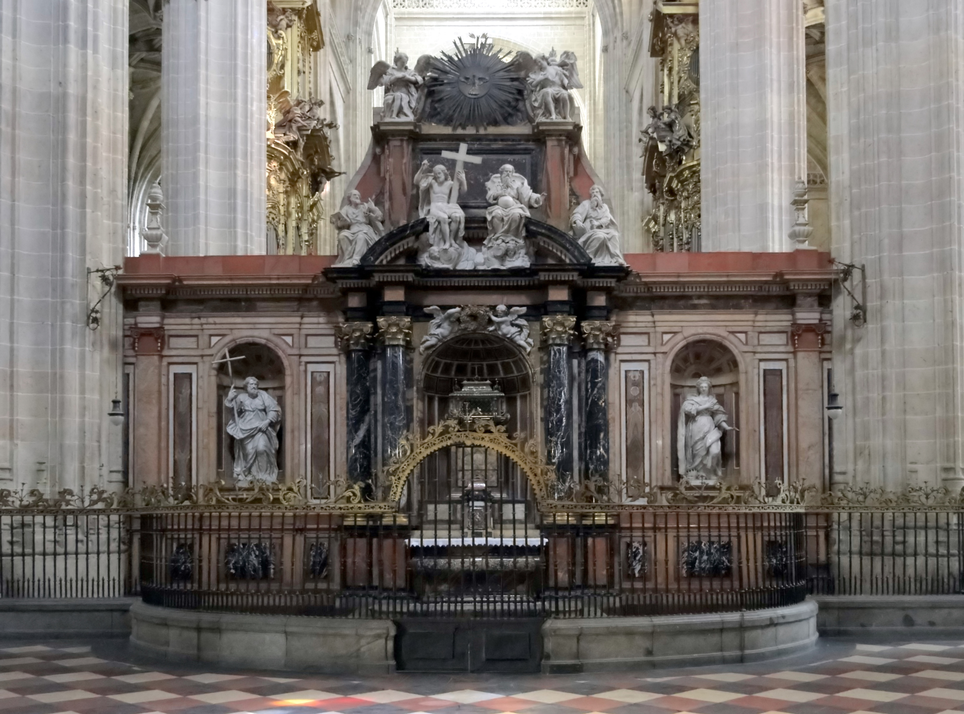 Retrochoir of the Cathedral of Segovia, Spain